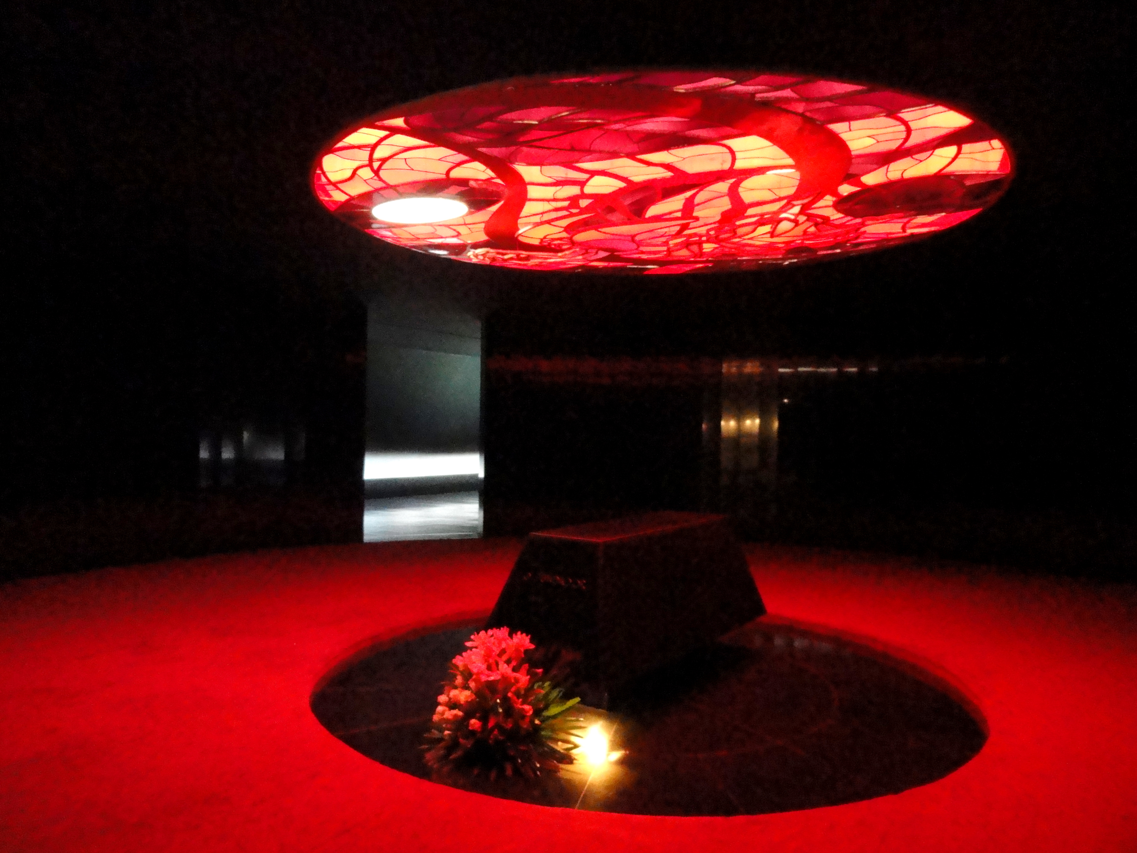 Interior view of the Memorial JK, Brasília, Brazil.